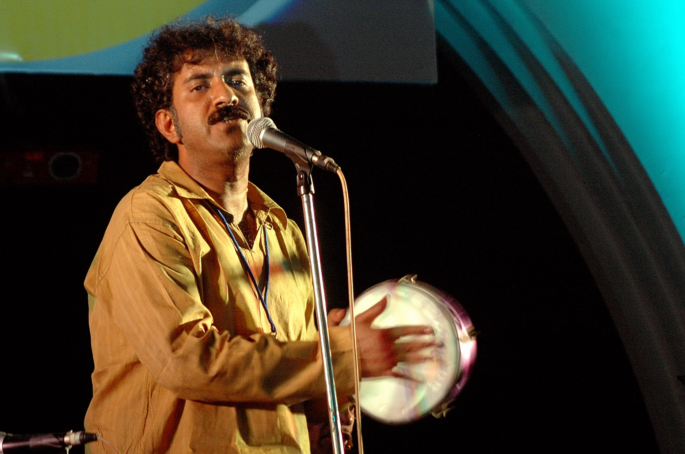 Kalikaprasad, in one of his folk concerts